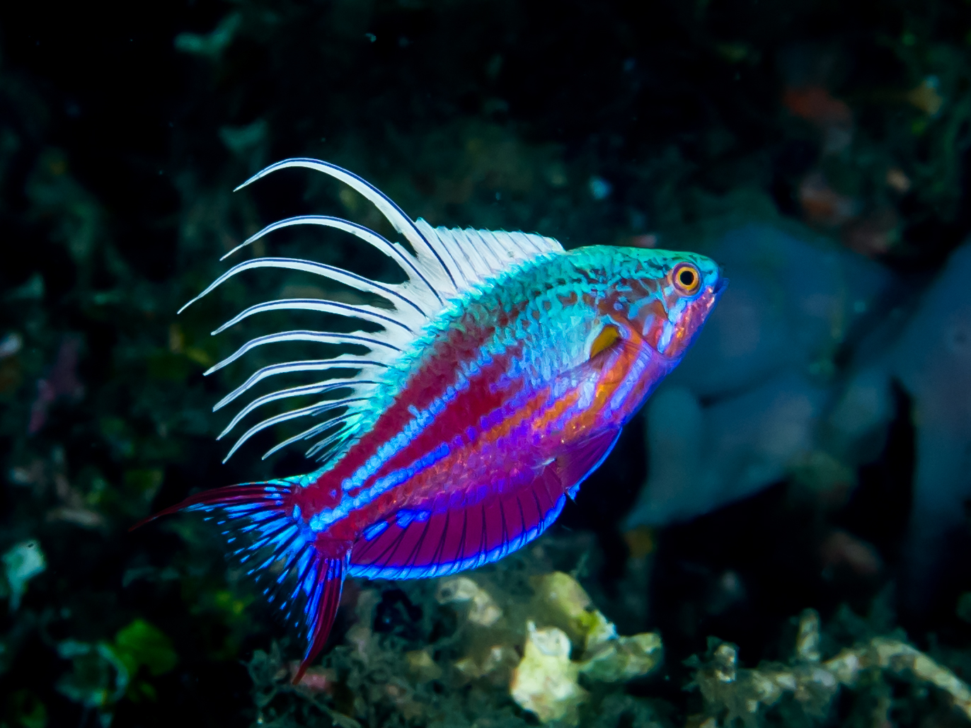 Lembeh, Indonesia - Blue flasherwrasse (Paracheilinus cyaneus)